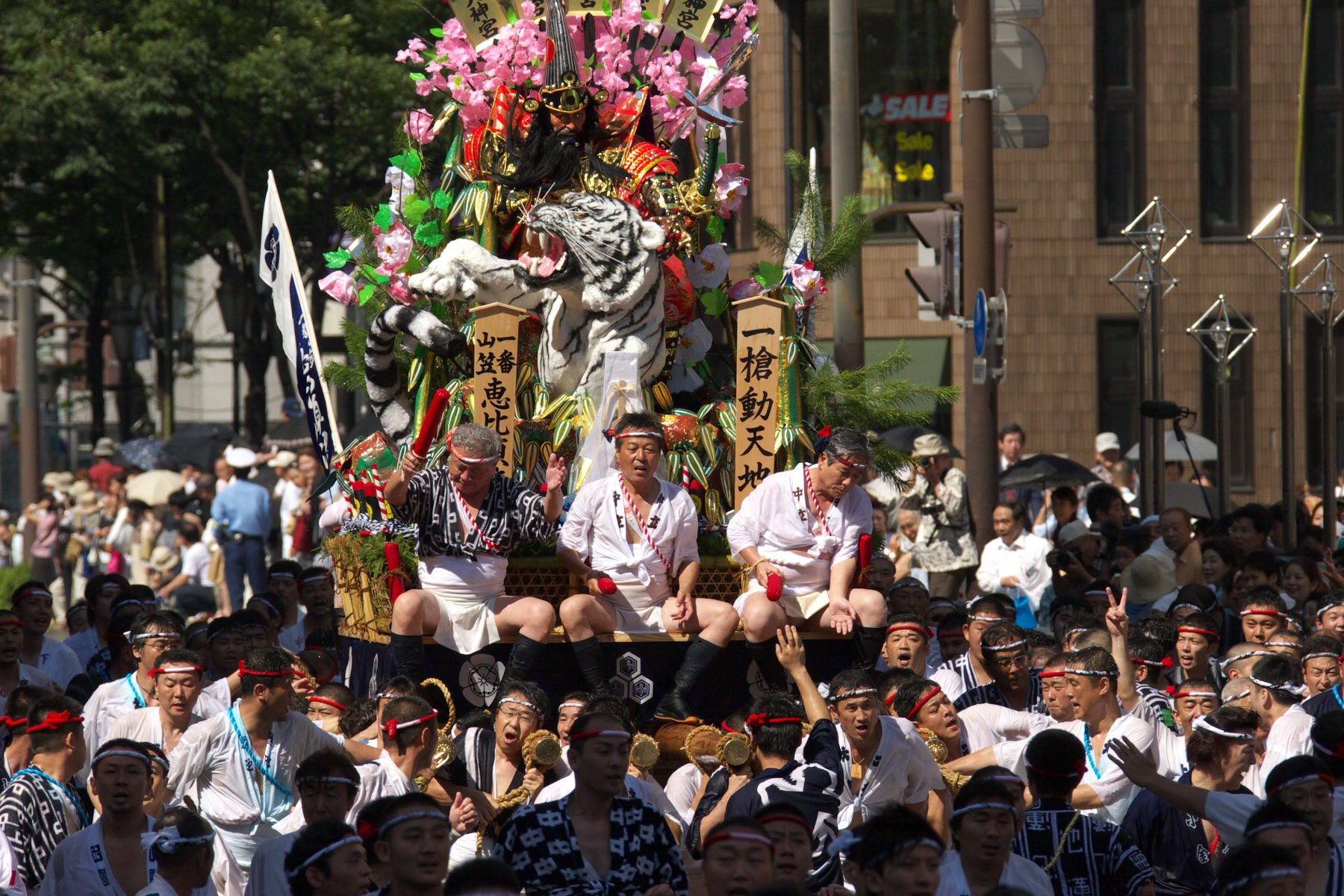 Kakiyama, Hakata Gion Yamakasa, at Fukuoka, Japan.